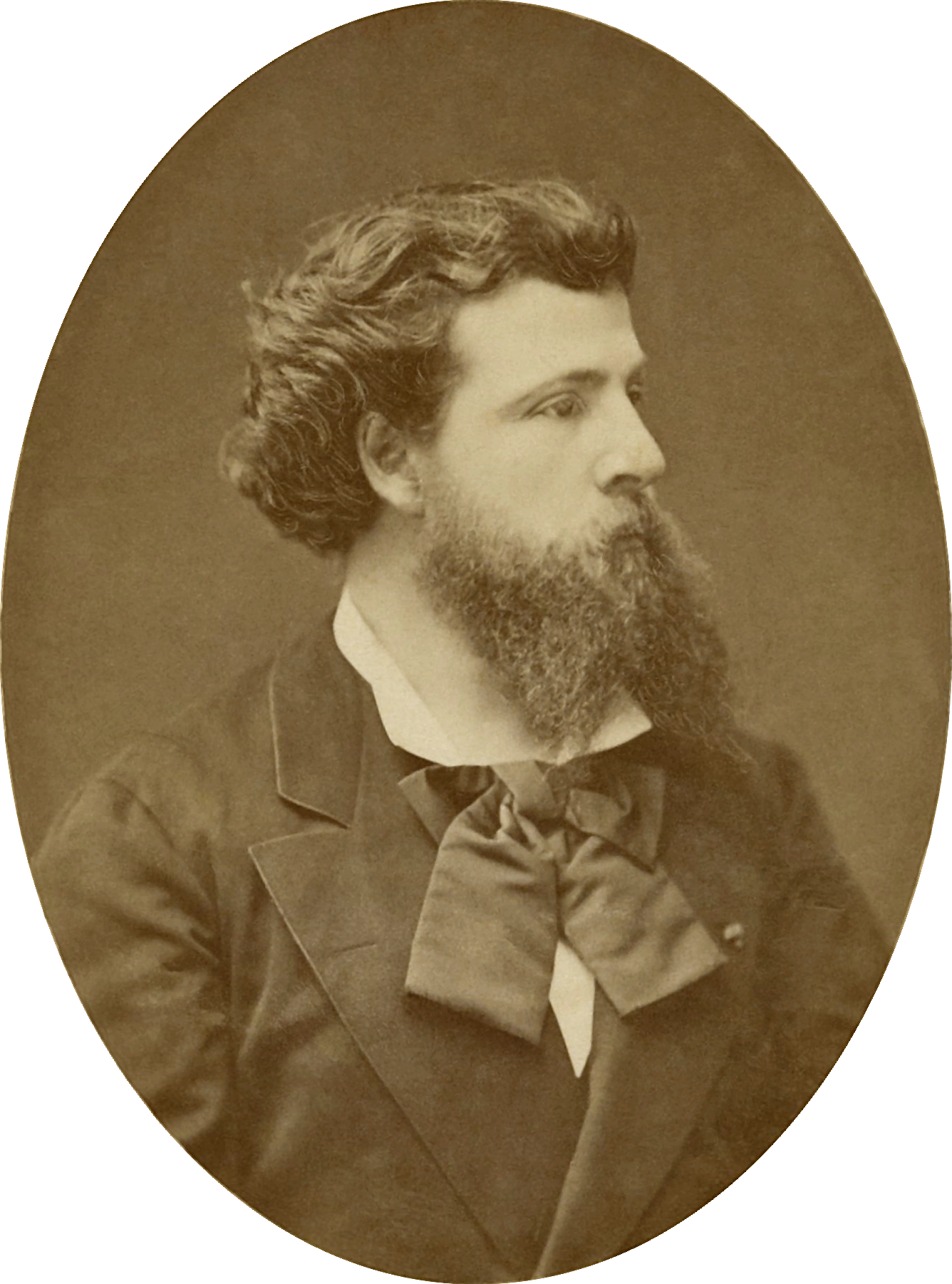 Édouard Pailleron (1834-1899), french author, writer, poet and journalist.